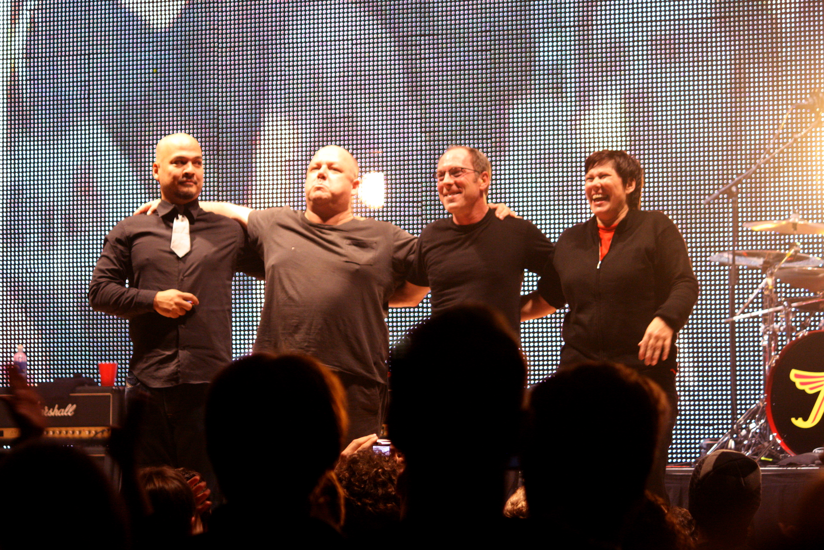 Pixies in Washington DC.